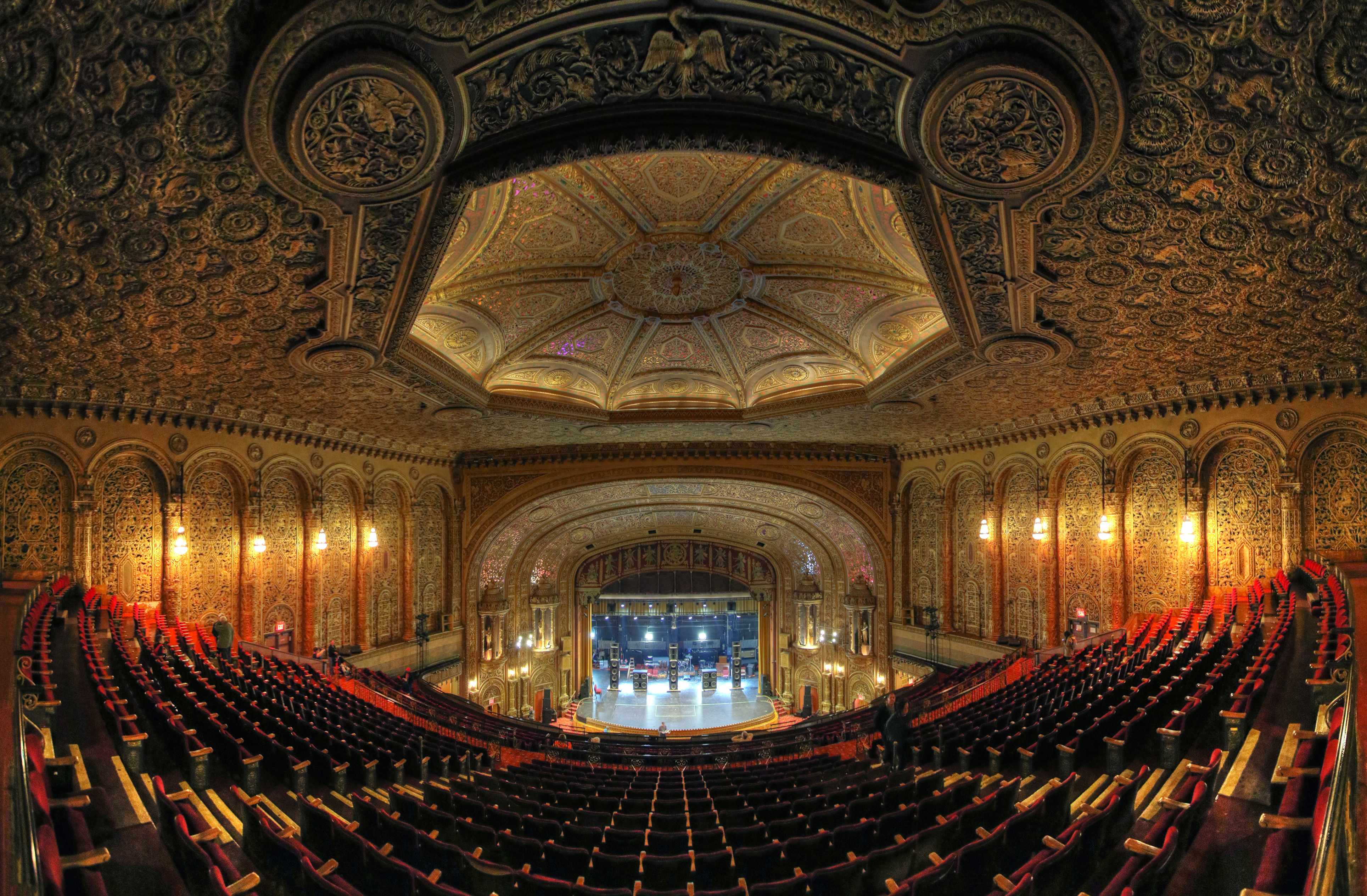 Site: United Palace Theater. OHNY prize winner for interior.